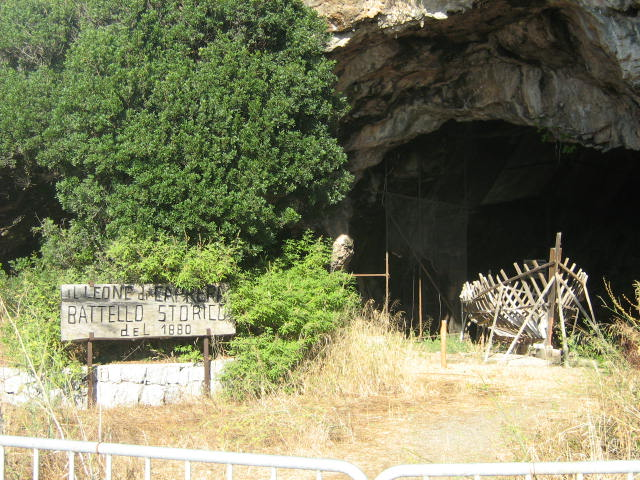 The barquentine "Leone di Caprera" exposed in Marina di Camerota.